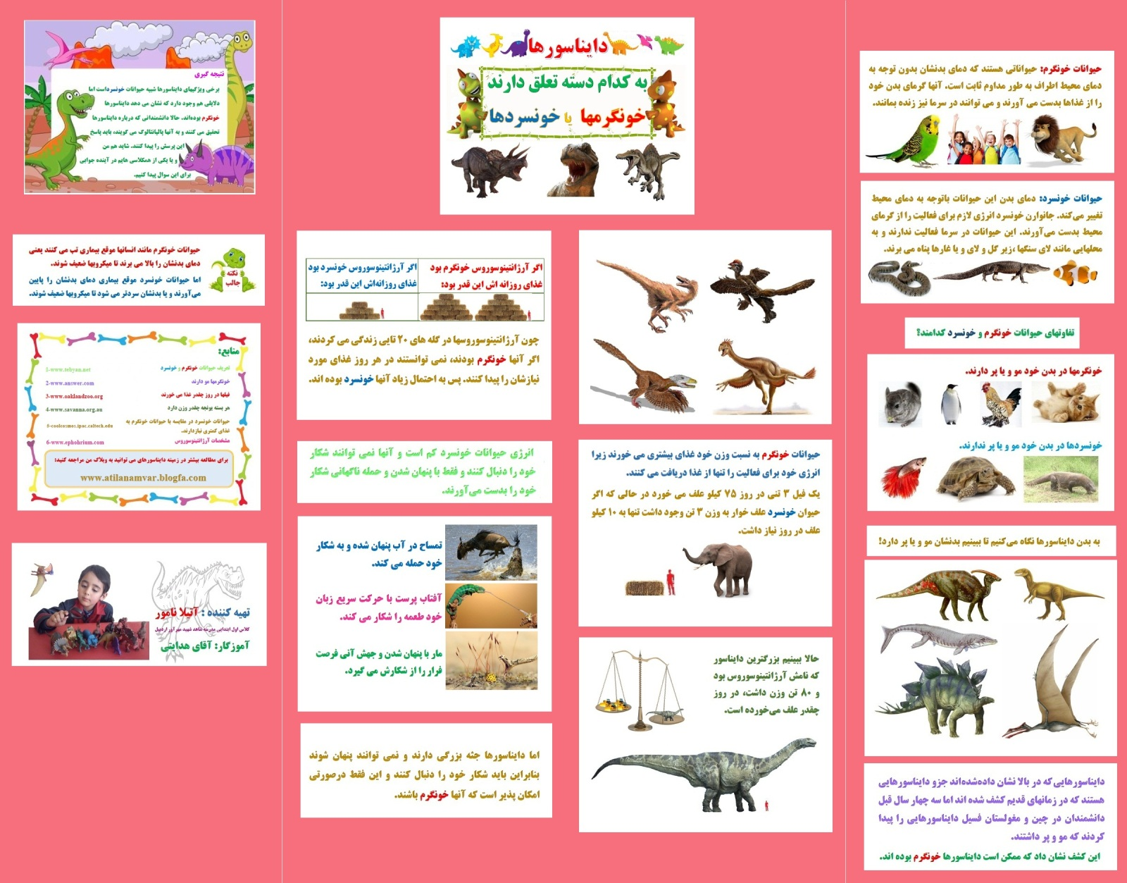 Science fair